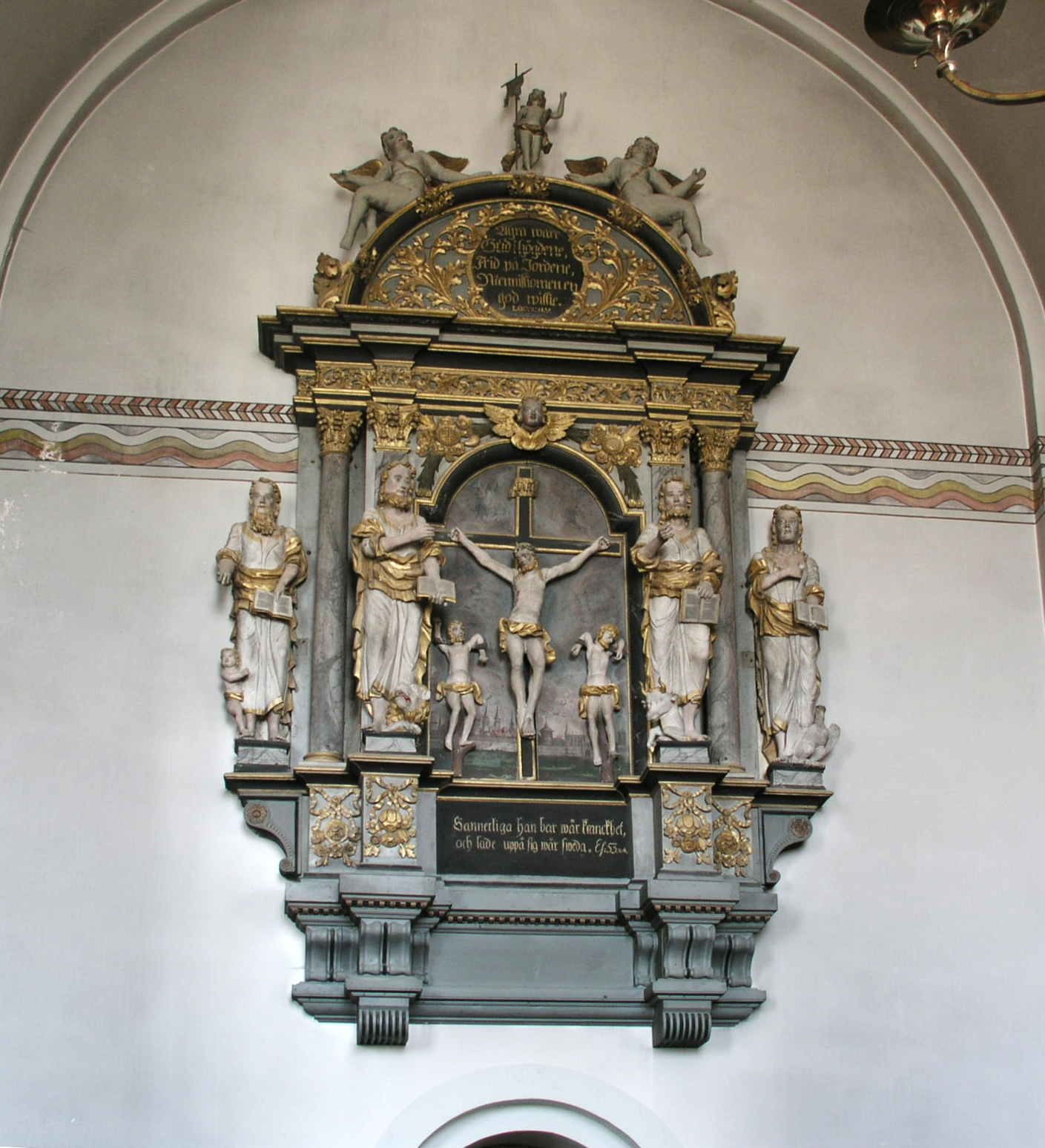 Valleberga kyrka/church. Altar group